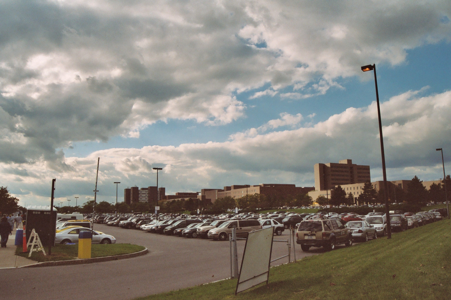 I took this photograph of the State University of New York at Buffalo's North Campus in Amherst on September 19th, 2006.